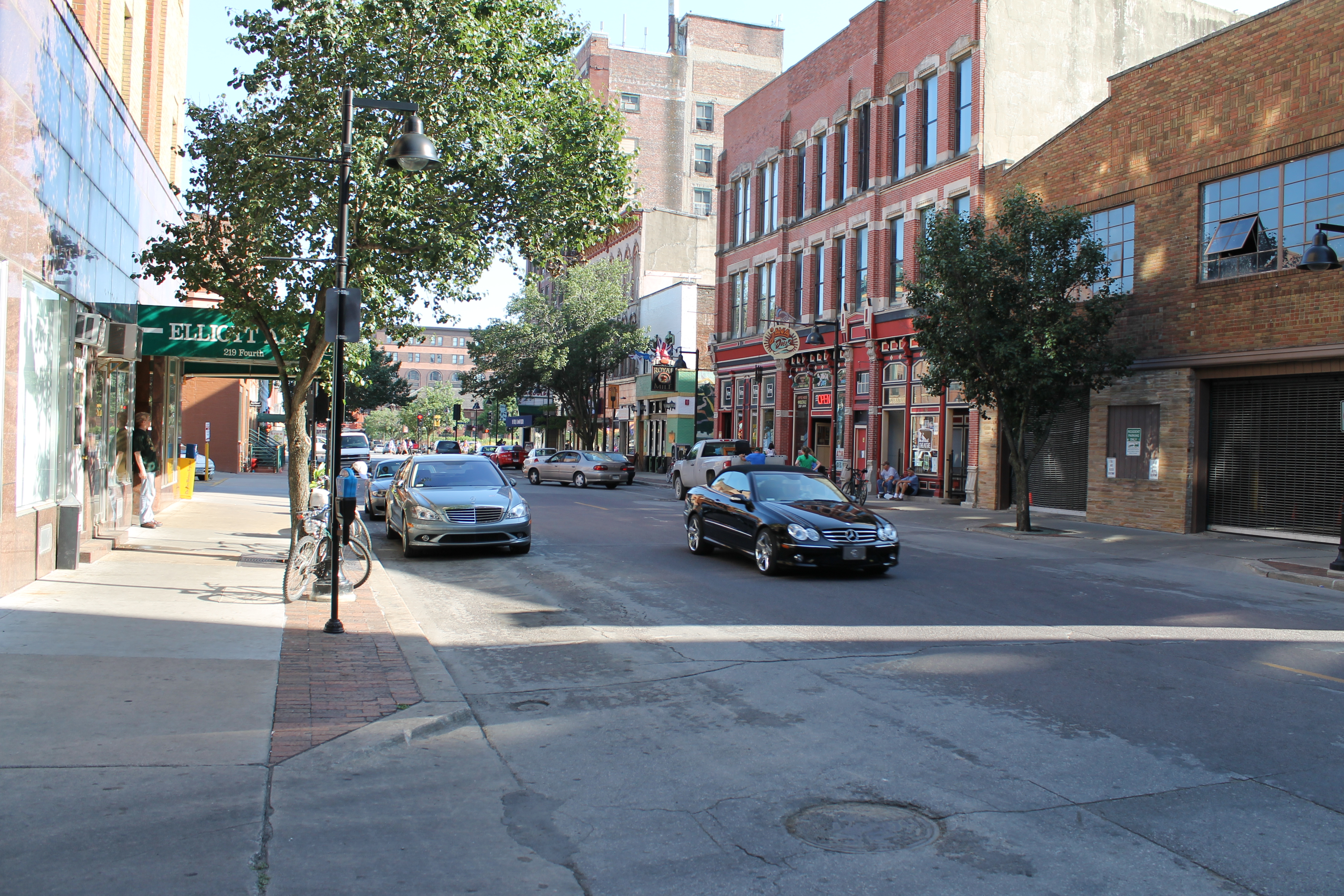 The 4th Street Neighborhood is located within the Court Avenue Entertainment District of Downtown Des Moines. Some of the oldest buildings in the city are on 4th street and it plays host to the Downtown Farmer's Market on Saturdays.